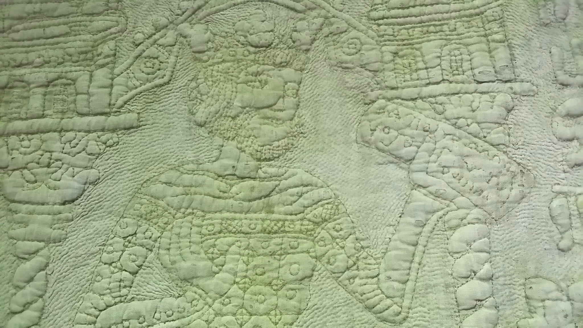 Photograph of the 14th century Tristan Quilt on display at the V&A Museum. This detail shows King Mark of Cornwall